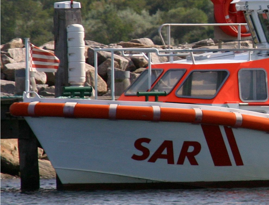 Lifeboat of the DGzRS SRB KONRAD OTTO - Position Kühlborn - Mecklenburg, Germany - Bremer Jack